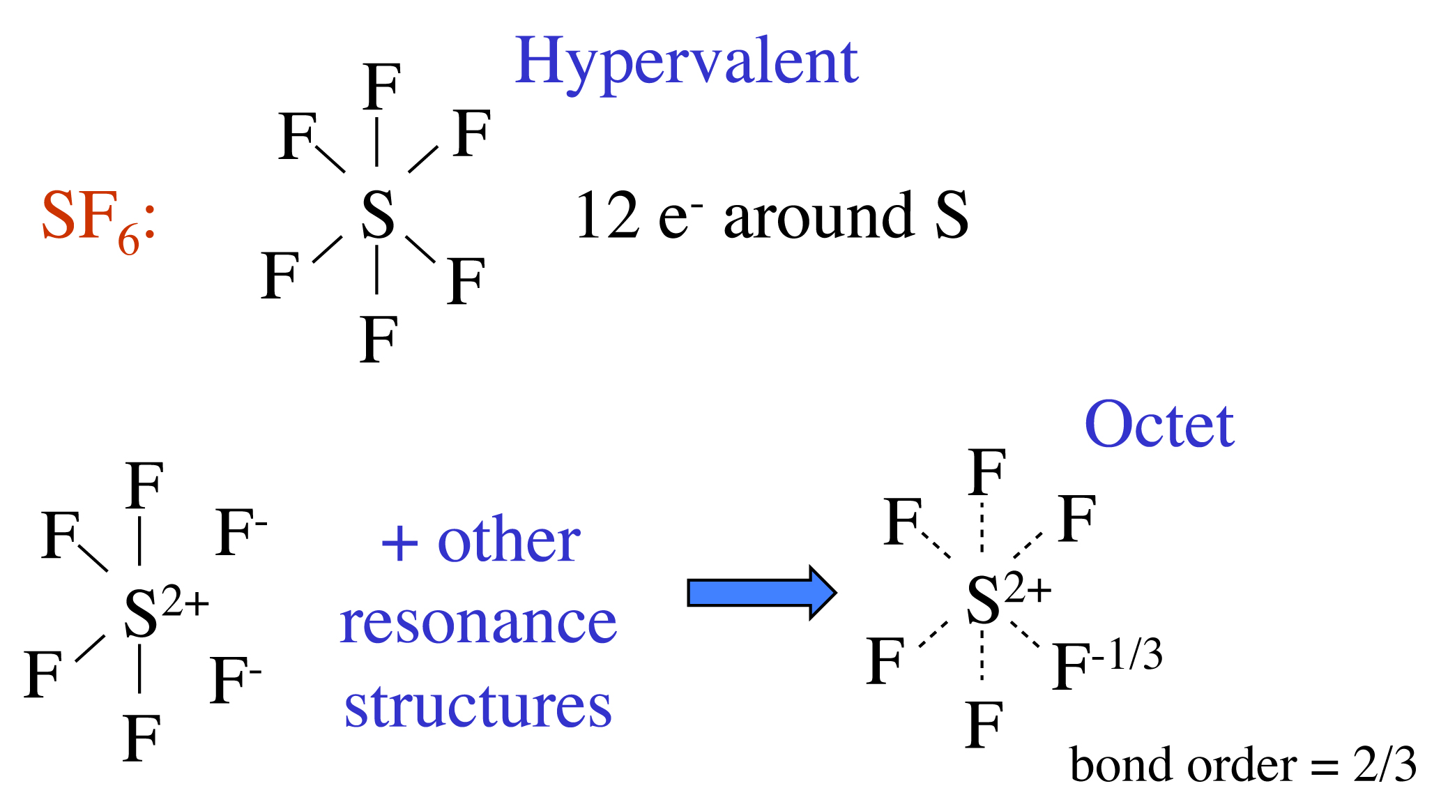 Hypervalent and octet bonding pictures for SF6